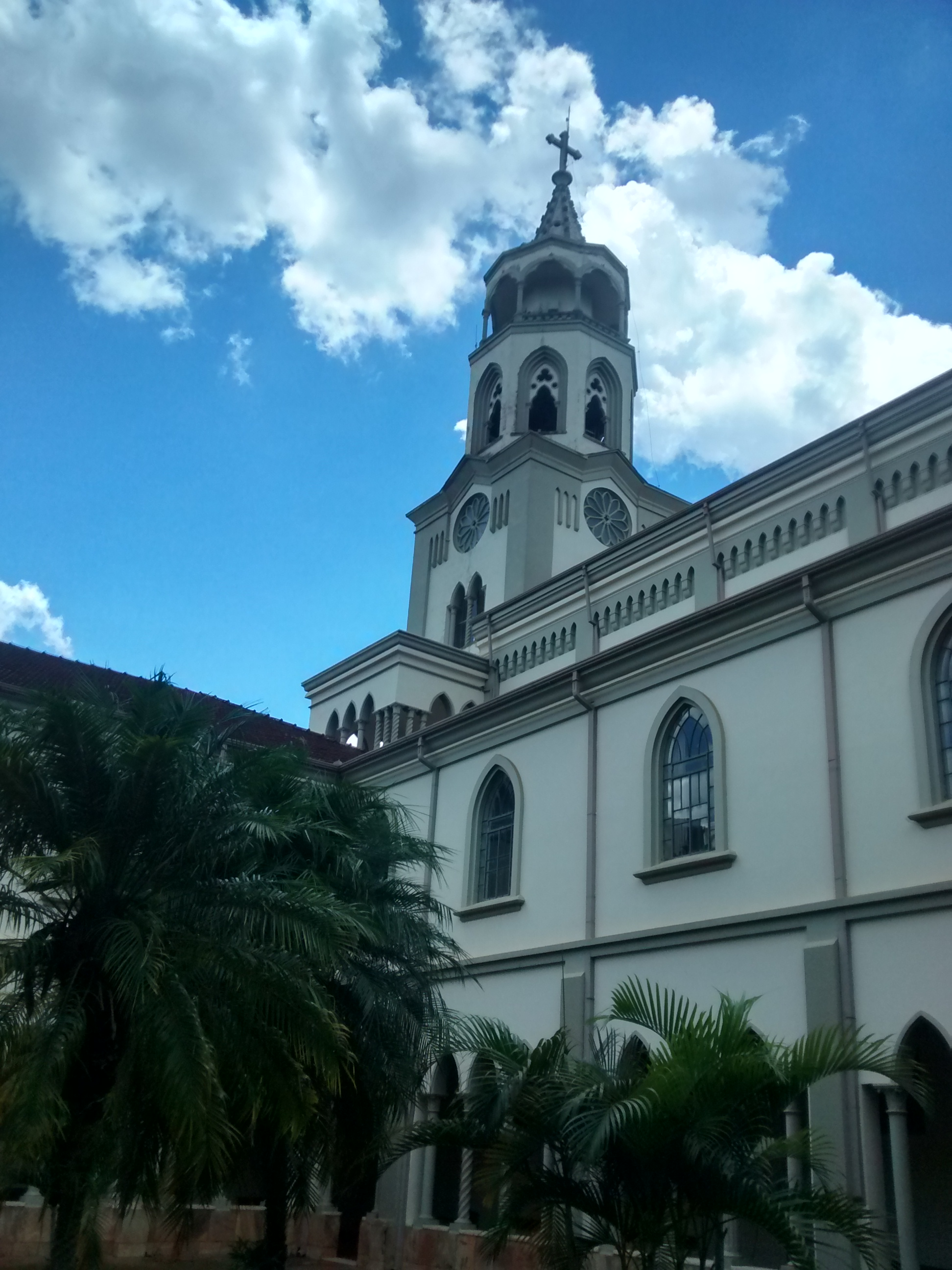 Monastery of Claraval, Minas Gerais, Brazil